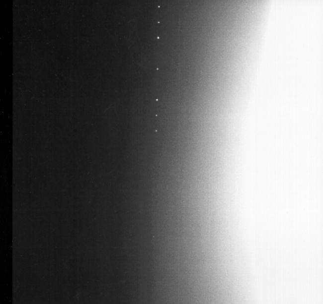 Image taken by Galileo spacecraft during the GOPEX experiment